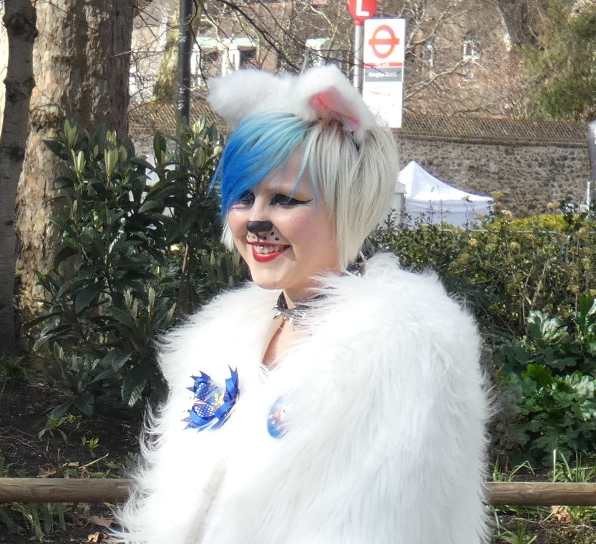 Wooferendum, 2019-03-10, Victoria Tower Gardens